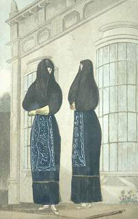 Caldcleugh: "The usual walking costume of Lima"